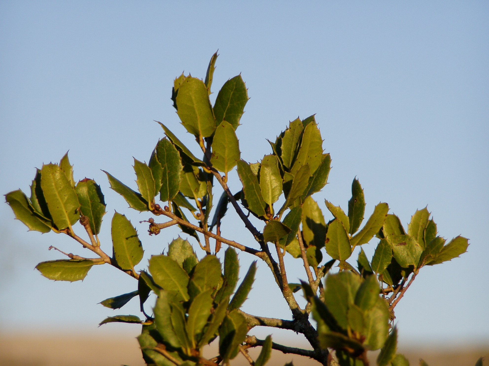 Kermes Oak